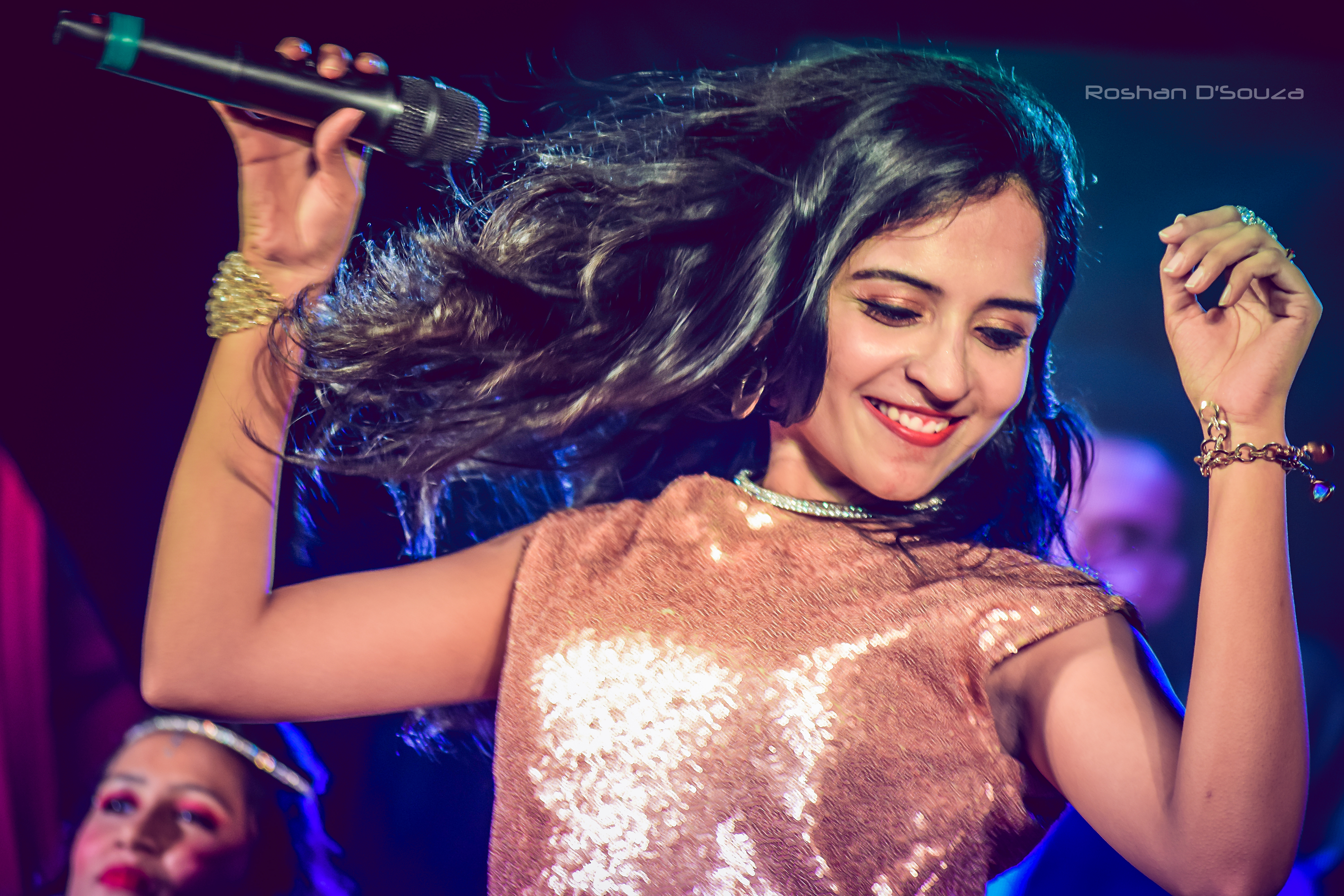 Sangeetha performaning at Pro Kabbadi